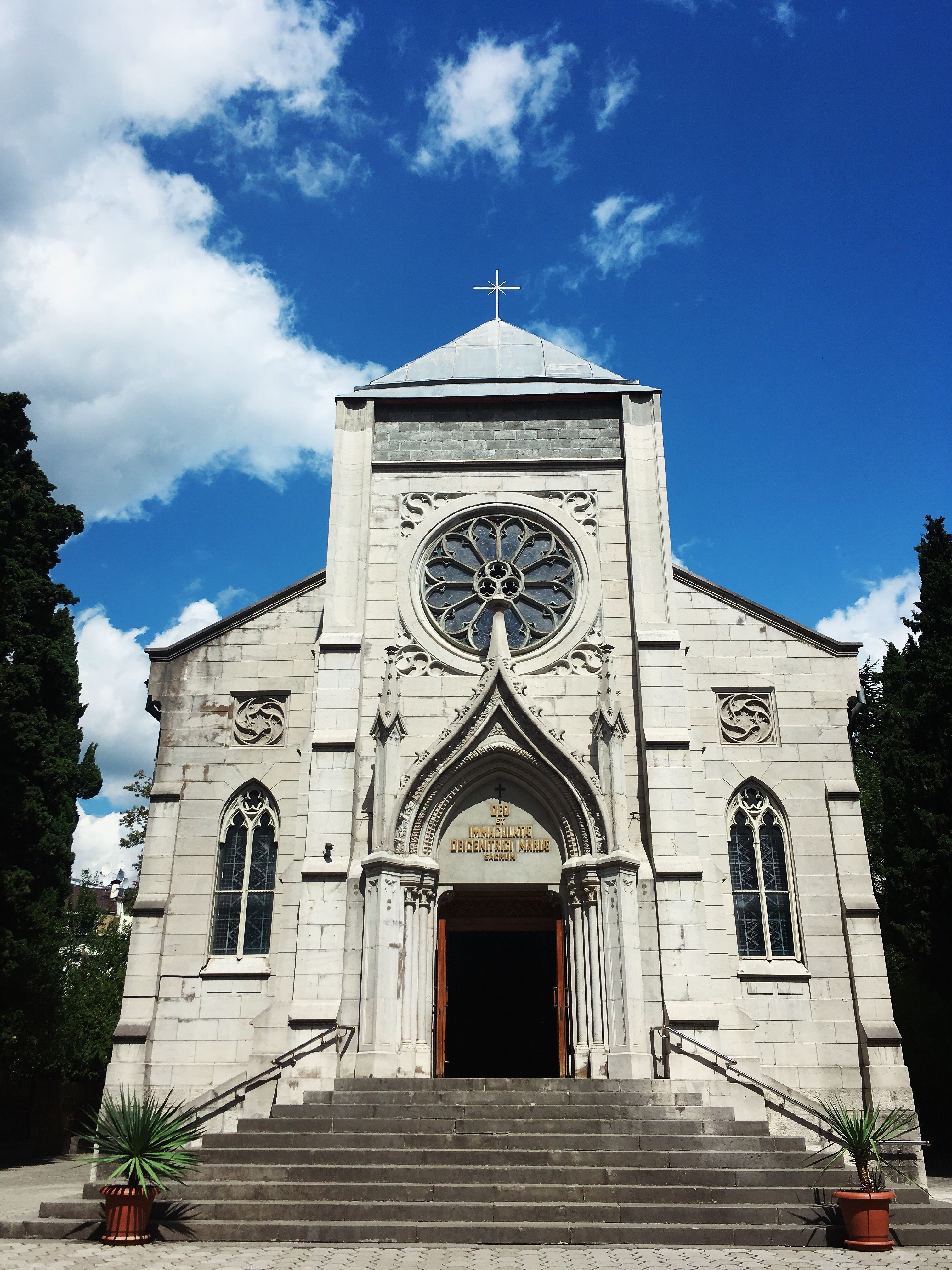 Roman-Catholic church of Immaculate conception in Yalta, Crimea This object is located on the Crimean Peninsula and recognized as cultural heritage by Russia under the monument ID: 8231617000. The legal status of the Crimean region is currently disputed.